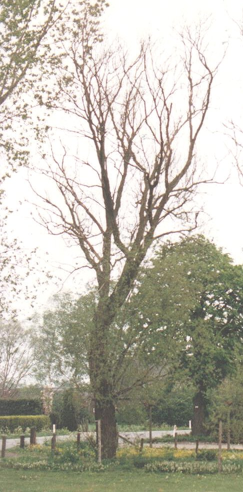 watermerkziekte (Erwinia salicis) by Salix